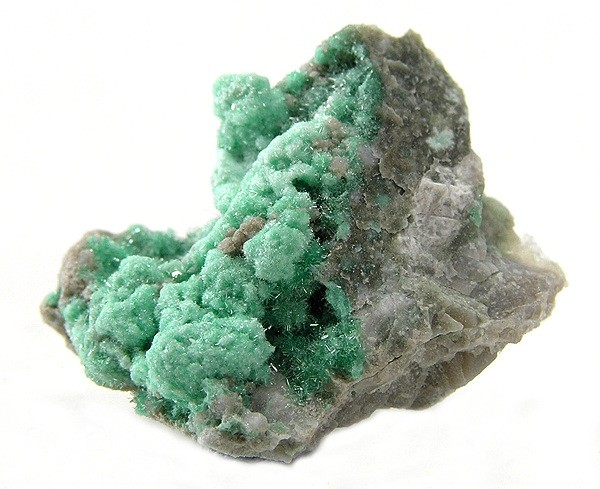 Metavariscite Locality: Lucin District, Pilot Range, Box Elder County, Utah, USA (Locality at ) A rare hydrated aluminum phosphate, closely-related to its much more common cousin variscite (and similar in appearance) but with a different atomic structure. 3.7 x 2.9 x 1.8 cm